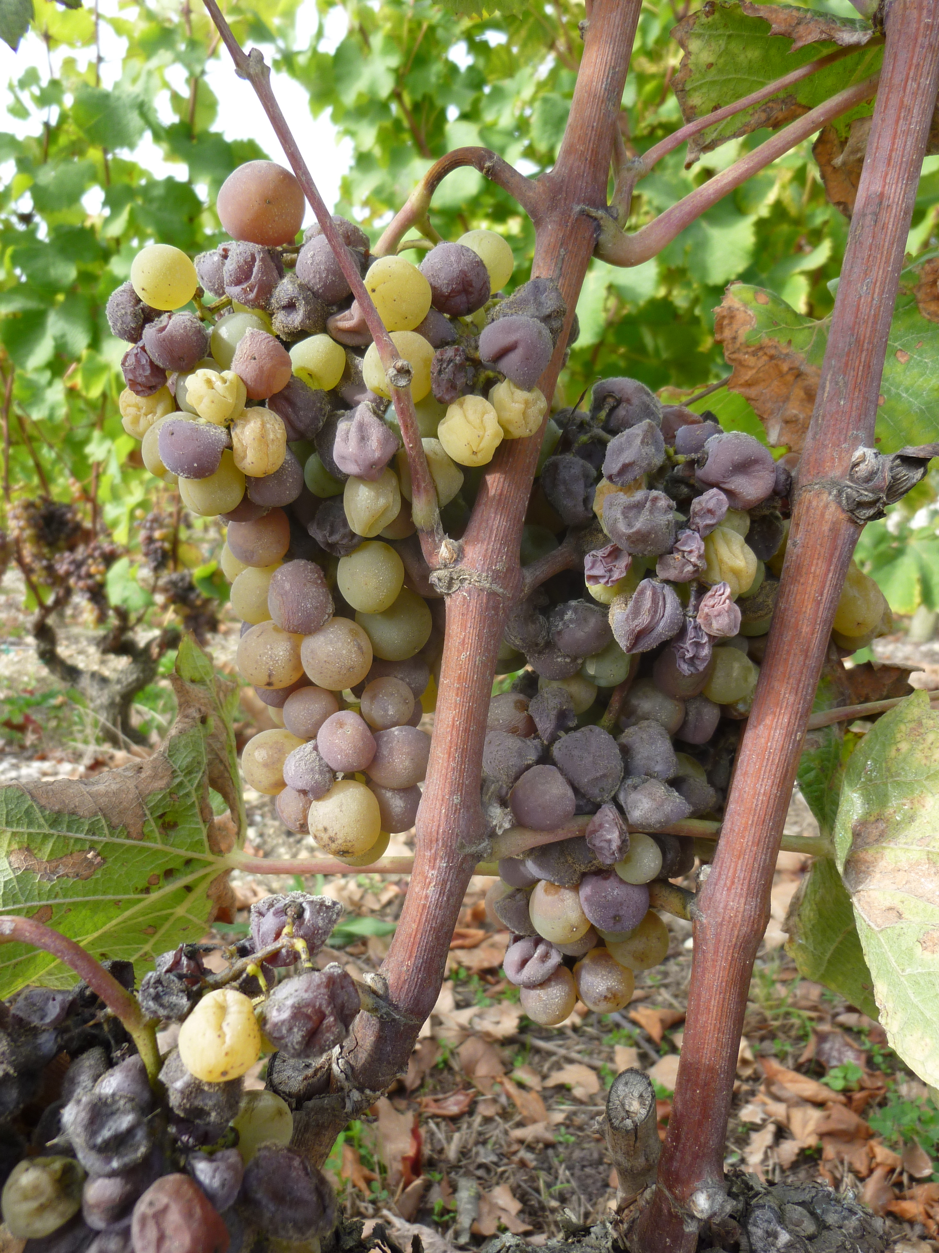 Grapes from the Gironde region of southwest France with signs of noble rot (botrytis cinera).